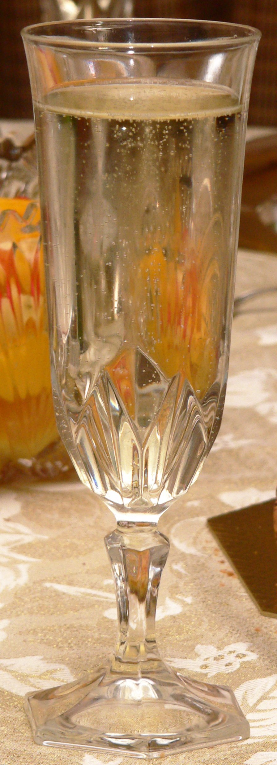 A glass of Clairette de Die